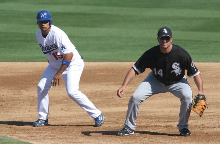 Description Dodgers Rafael Furcal leads off base as White Sox Paul Konerko looks to home plate during spring training action in Arizona, 2008. DateMarch 2008SourceOwn workAuthorCraig Y. Fujii 03:48, 12 May 2008 . . Craigfnp . . 720×471 (82 KB) Dodgers Rafael Furcal leads off base as White Sox Paul Konerko looks to home plate during spring training action in Arizona, 2008.